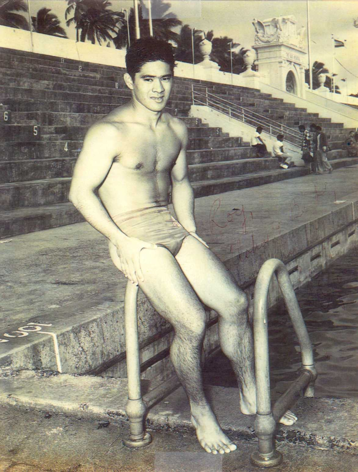 A visual of Yoshi Oyakawa